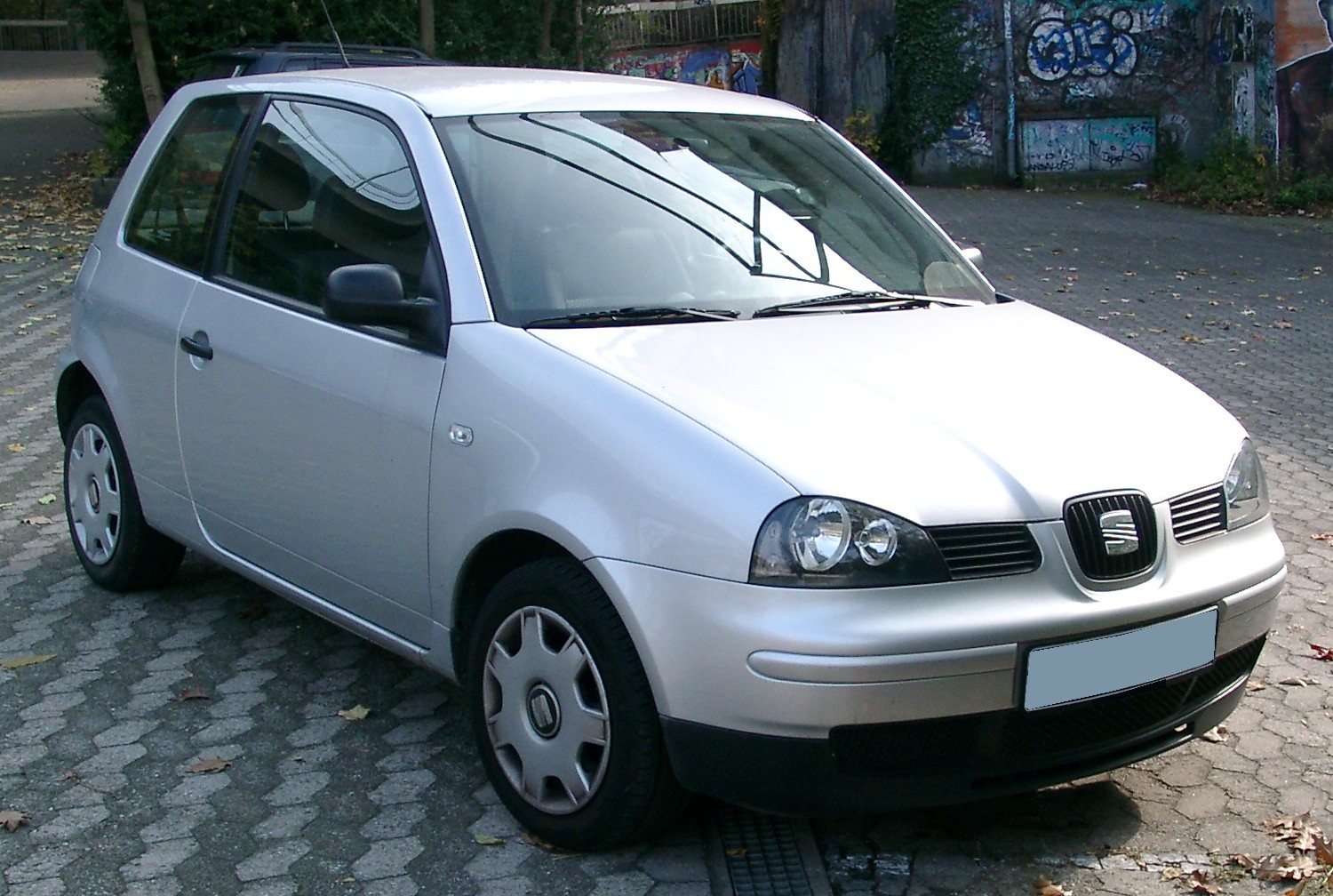 Seat Arosa